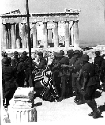 German propaganda picture. German soldiers prepare to raise the Reich War Ensign over the Acropolis